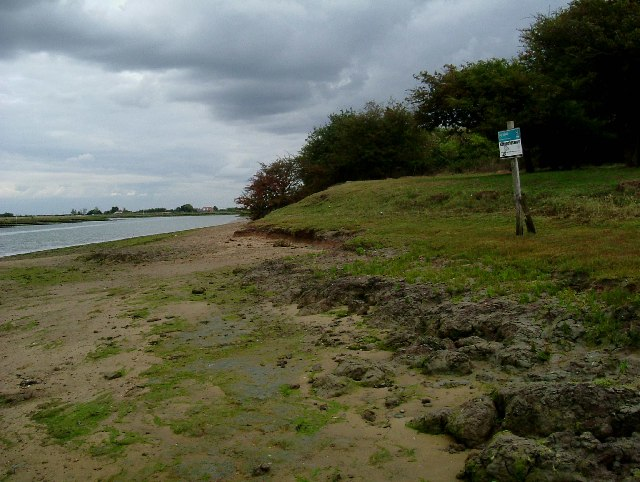 Ray Island. This is a shot of Ray Island; this is a National Trust reserve run in conjunction with Essex Wild Life Trust The island rises two or three metres out of a spit of salt marsh that runs south west of 37843 Causeway to Mersea Island. "Ray" is an SSSI that can only be reached by boat or at low tide by tortuous path across the salt marsh from The Strood. Daytime guardians of the island are a shepherd and his wife who have a small flock of Soay Sheep penned into the "highest" part of the island.